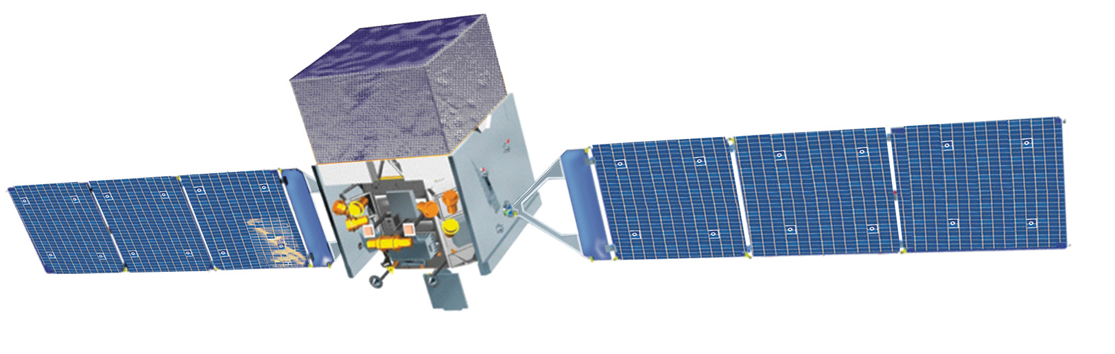 Artist rendering of the Fermi Gamma-ray Space Telescope.